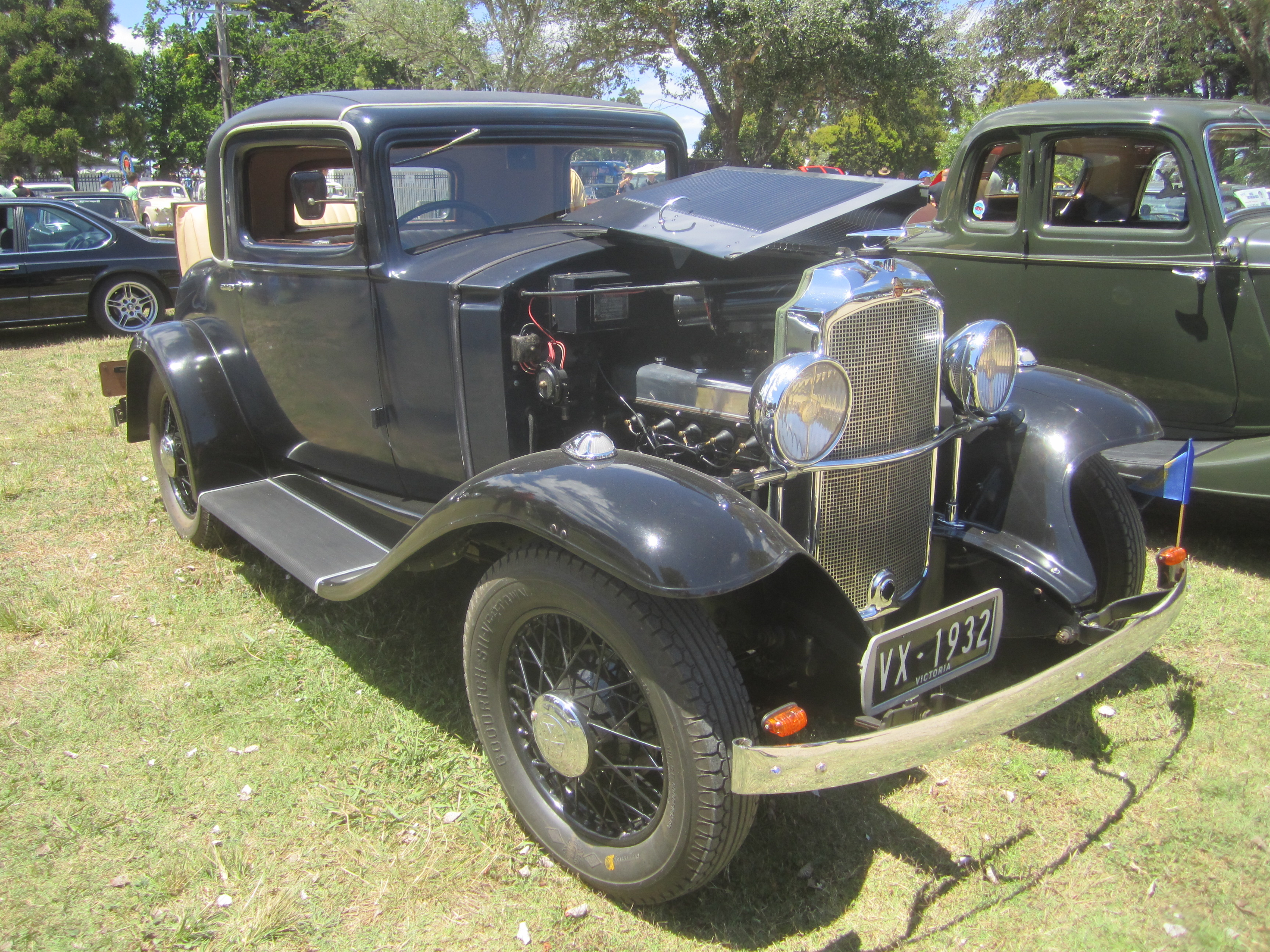 Vauxhall was acquired by General Motors in 1925, They sold Bedford trucks and the Vauxhall Cadet. Available in Sedans, Tourers and Coupes. Engine; 3317cc 6 cylinder